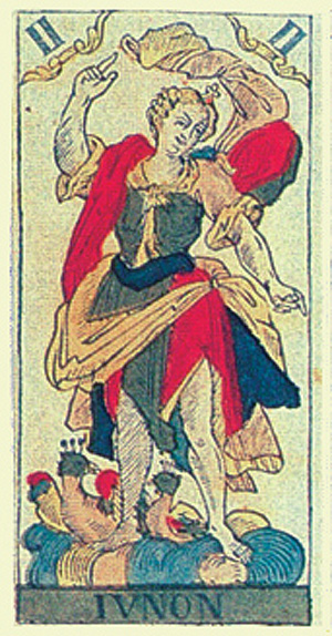 Junon, card II of Tarot de Besançon, 1818, Strasbourg